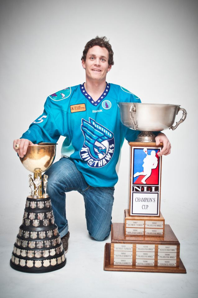 Photo of Professional Lacrosse Player Brad Self with the NLL Champions Cup and the MLL Mann Cup. Photo taken by Jamo Best.